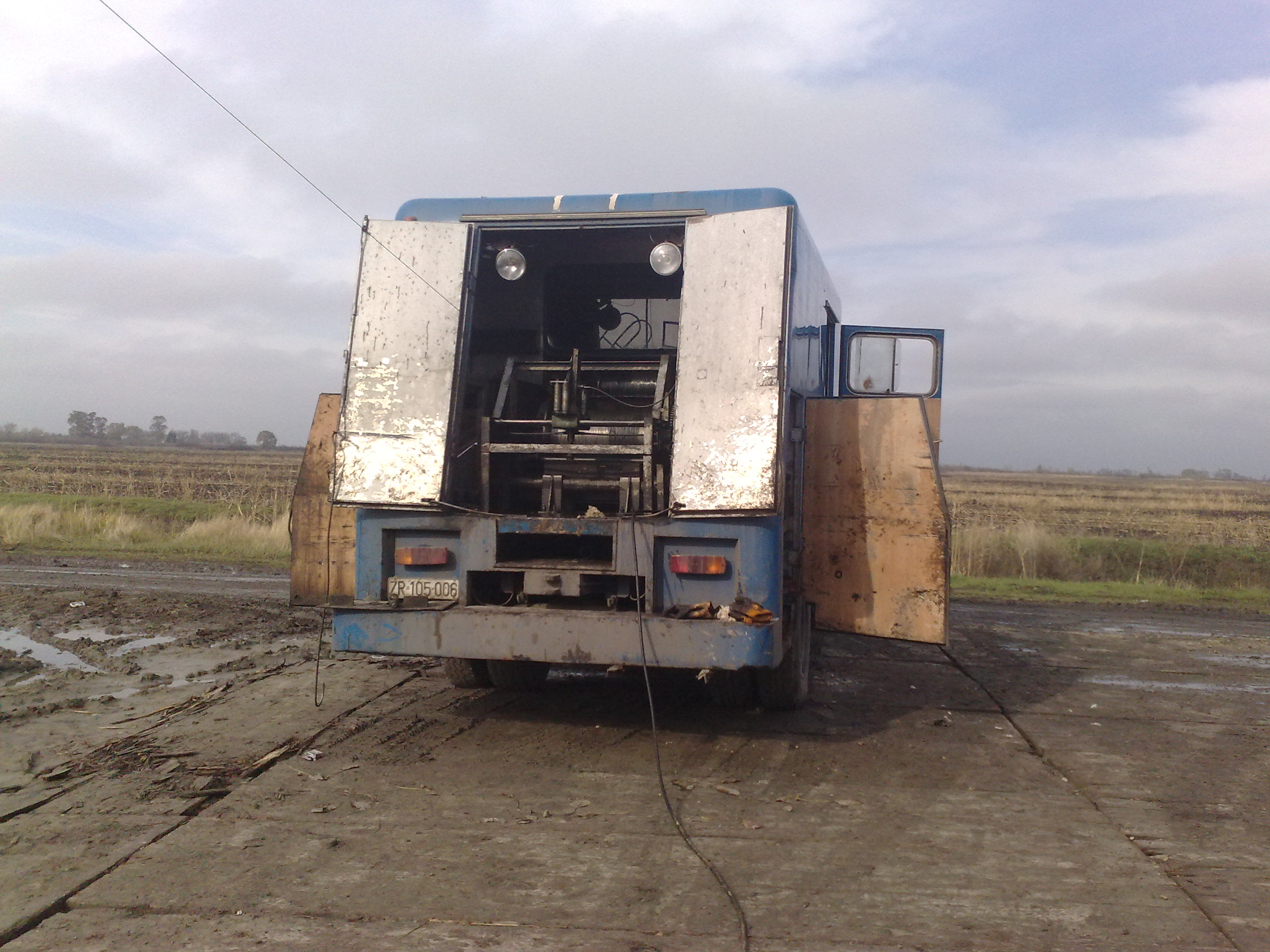 Slick Line, for oil and gas industry.